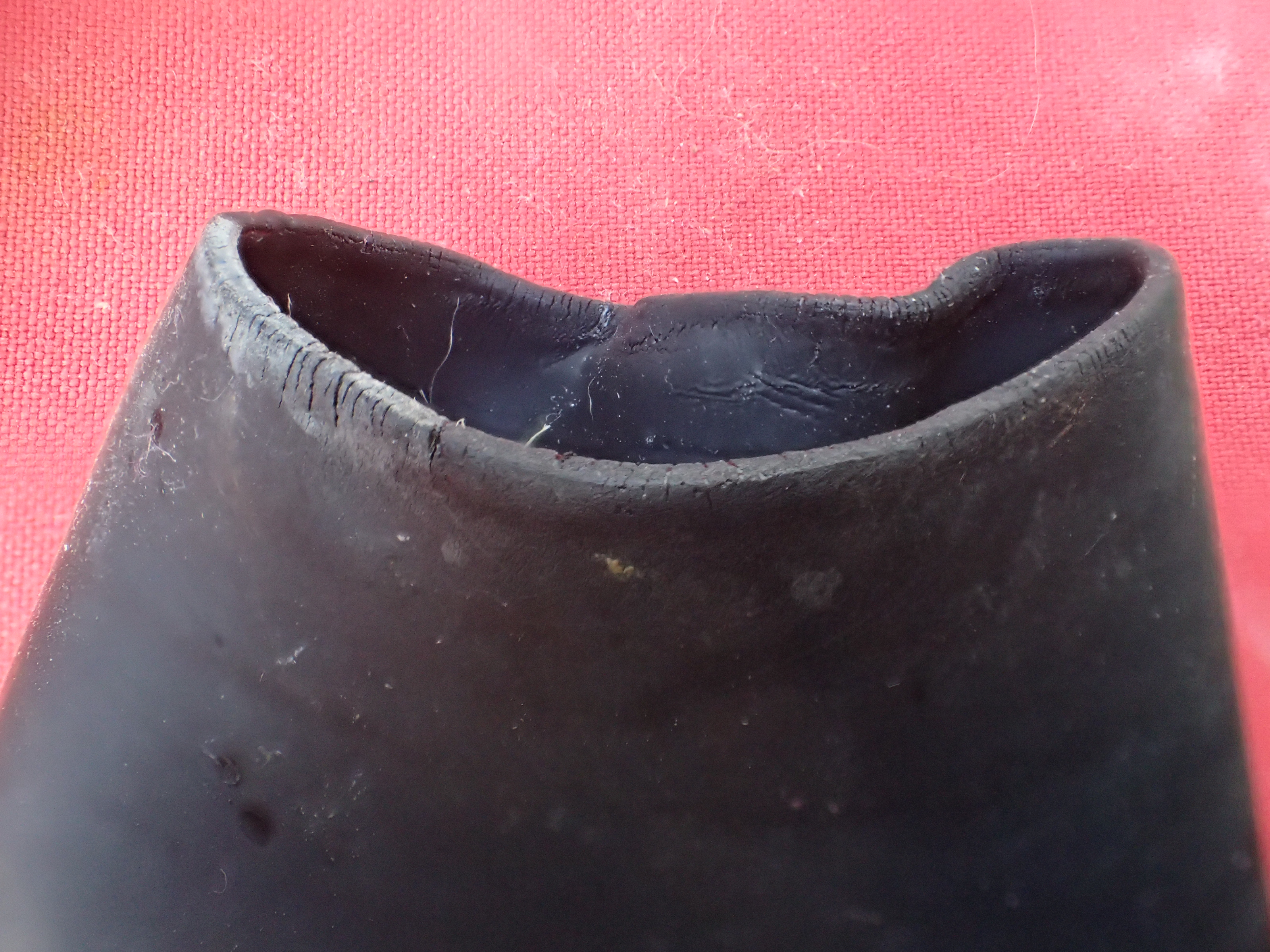 Cracking of latex rubber dry suit wrist seal